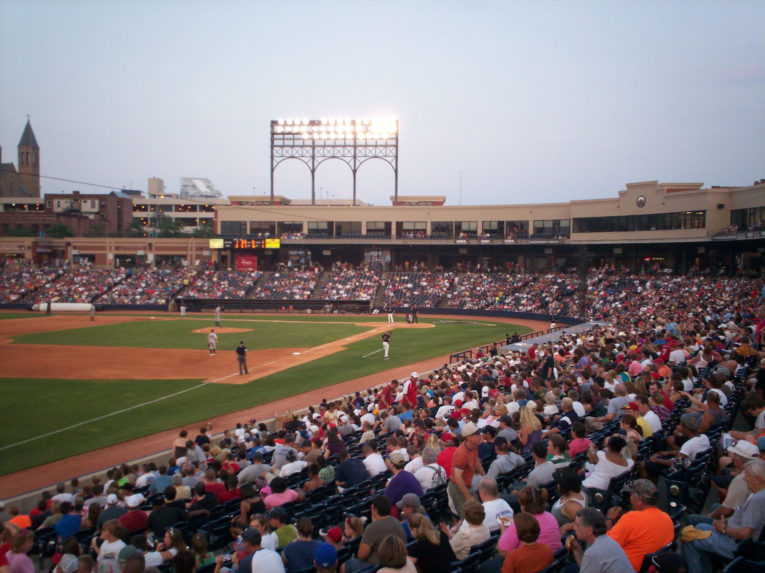 View from left field of Canal Park, a baseball stadium in Akron, Ohio during a game between the Akron Aeros and Trenton Thunder. The stadium opened in 1997 and is home of the Akron Aeros of the Eastern League, the AA minor league affiliate of the Cleveland Indians.